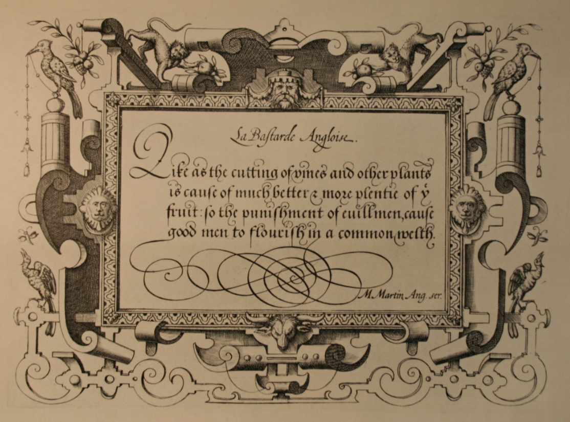 La Bastarde Angloise, page number 20 (counting frontispiece as page 1) from Theatrum artis scribendi by Hondius (1696).